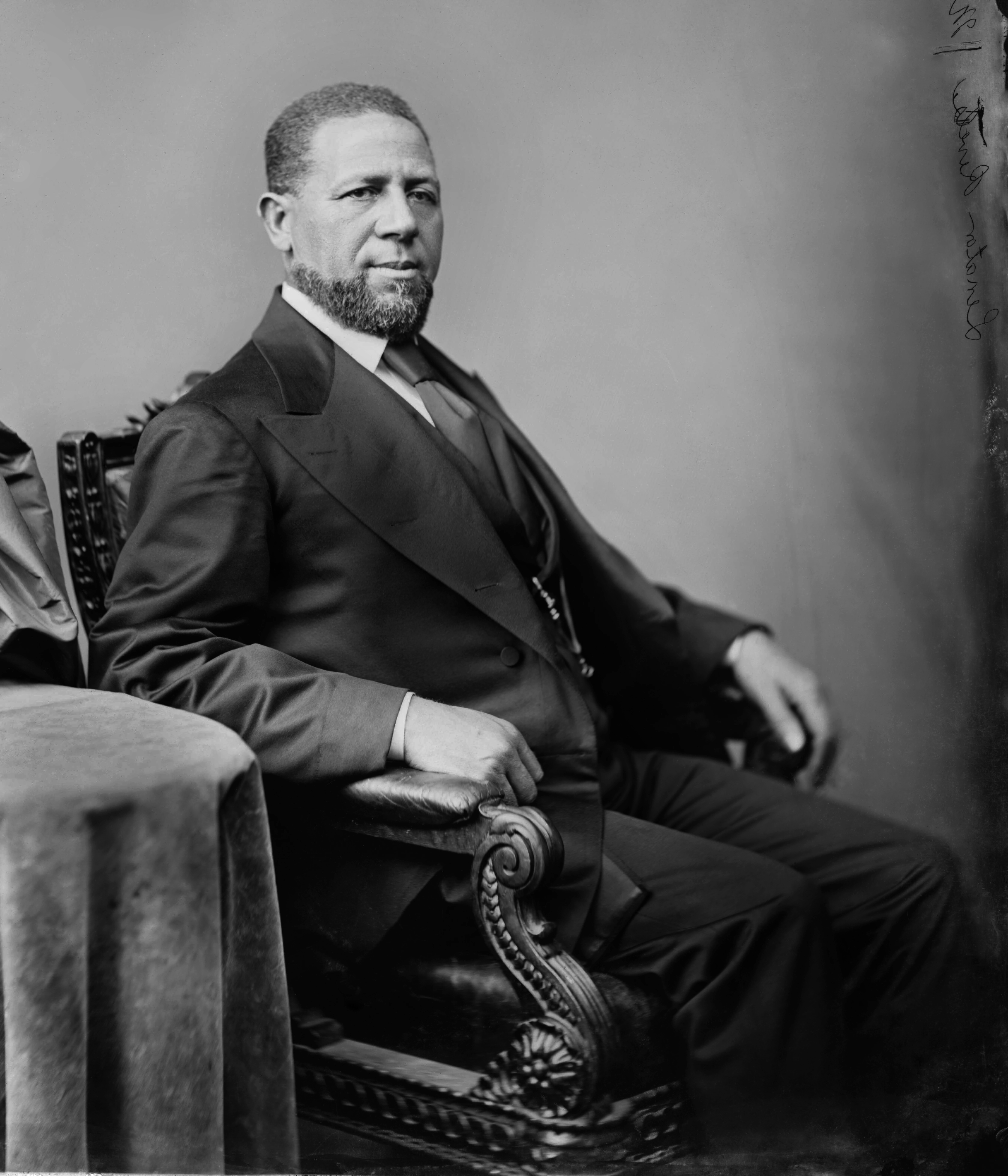 Hiram Rhodes Revels. Library of Congress description: "Hiram R. Revels of Miss."